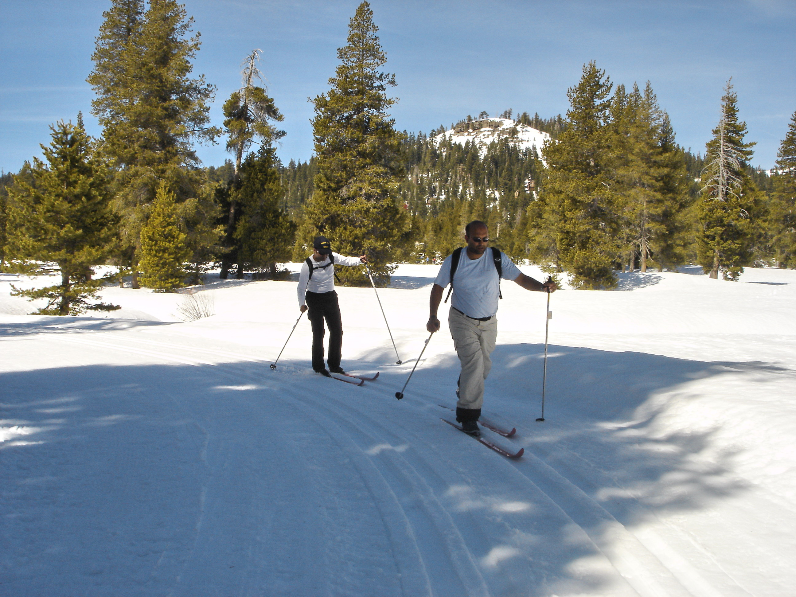 Bear Valley crosscountry skiers